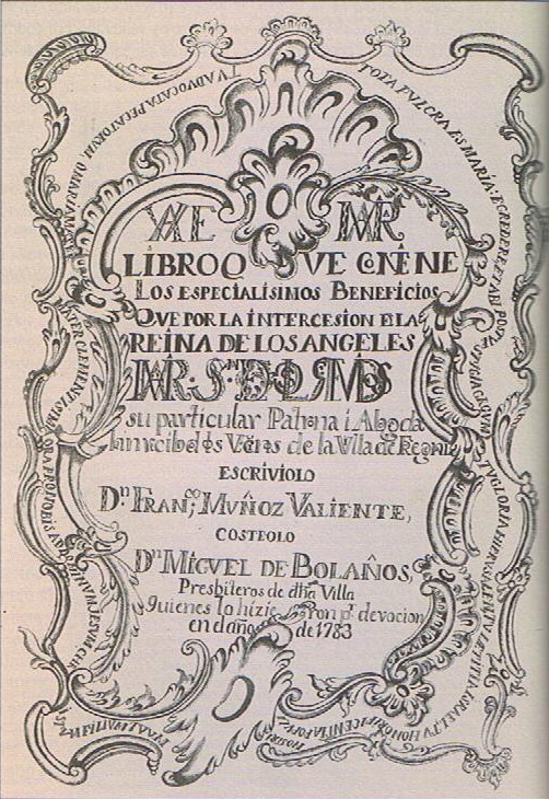 Book of the Milagros